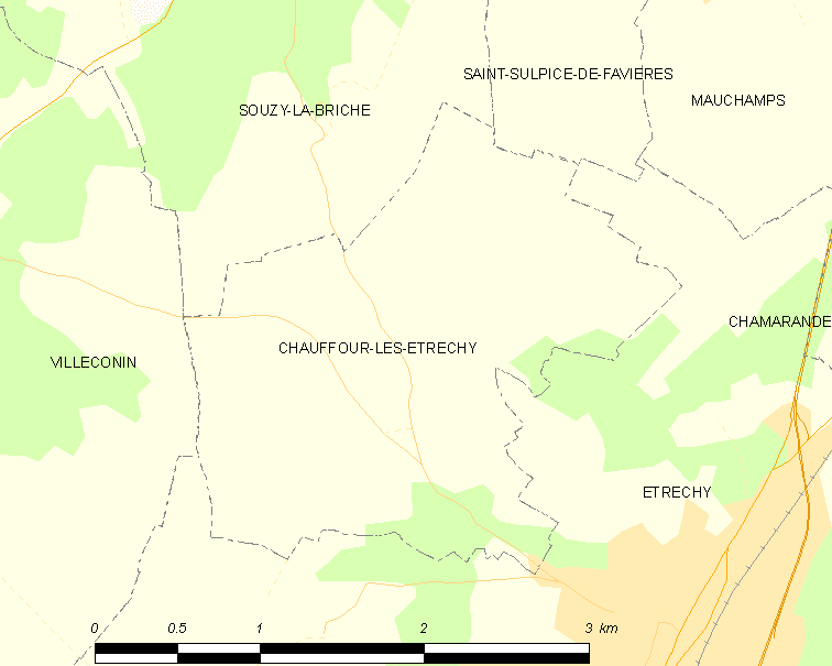 Map of French municipality Chauffour-lès-Étréchy